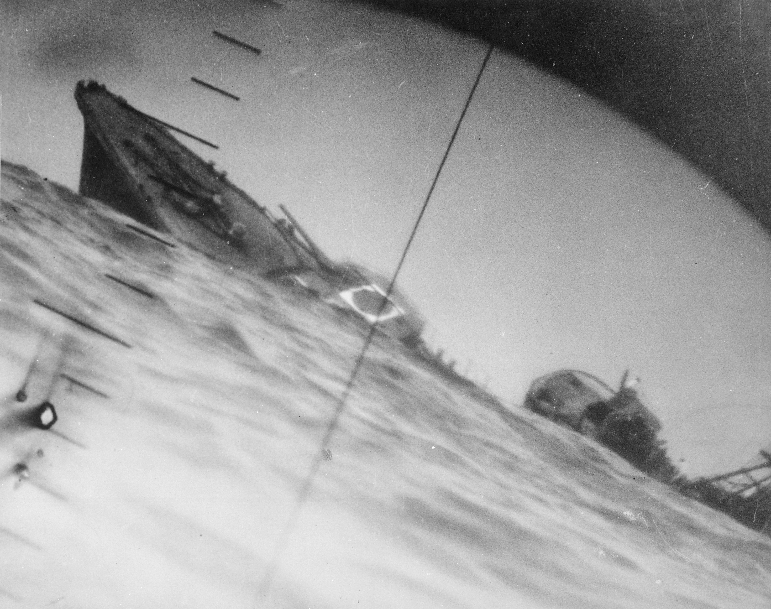 Sinking of the Japanese destroyer Yamakaze on on 25 June 1942 approximately 110 km southwest of Yokohama harbour, Japan, photographed through the periscope of the U.S. Navy submarine USS Nautilus (SS-168).